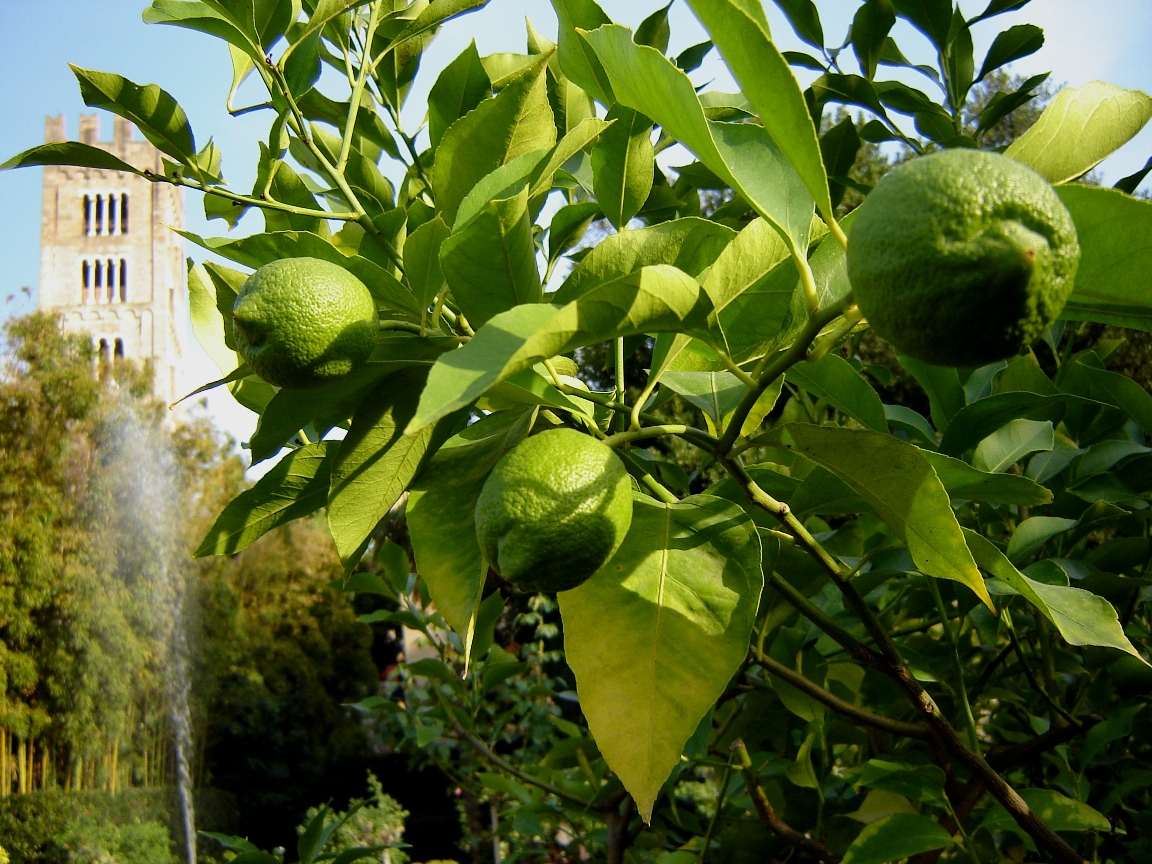 Lemons ripening in the Palazzo Pfanner garden in Lucca, Italy